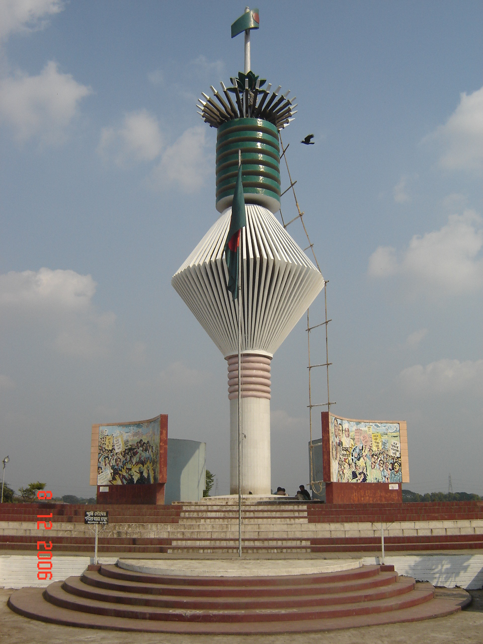 The image is captured by me and I leave it to the public domain.